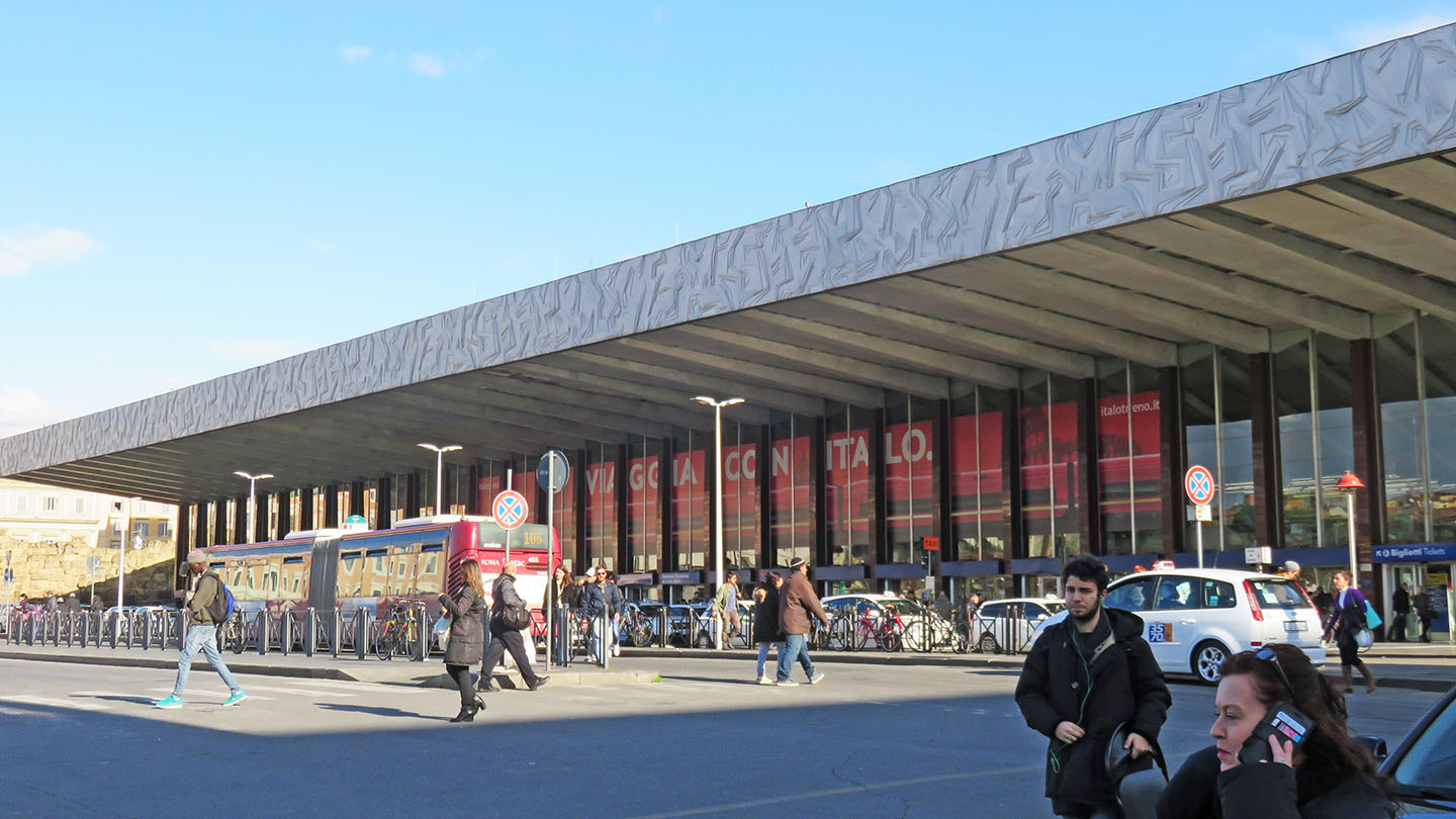 Roma Termini's exterior